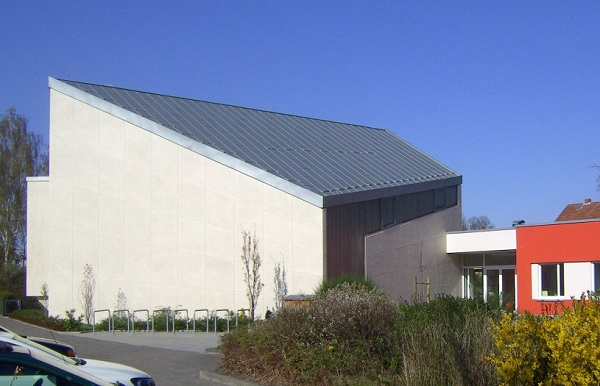 Das Bild zeigt die Ev.-luth. Pauluskirche in Celle in Niedersachsen, Deutschland. The picture shows the Ev.-luth. Pauluskirche in Celle, Lower Saxony, Germany.